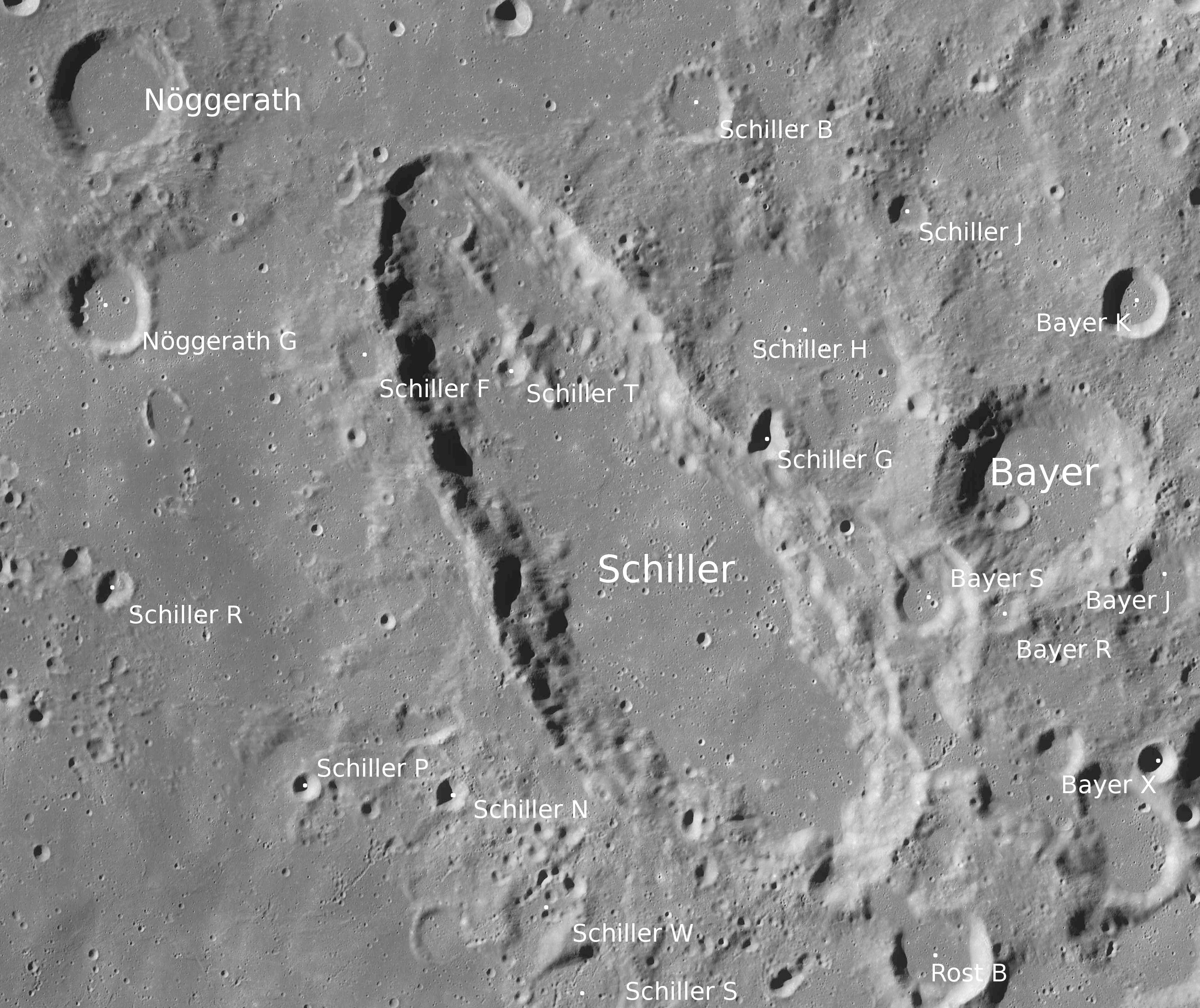 Craters Schiller, Bayer and Nöggerath (detail of LRO - WAC global moon mosaic; Mercator projection)